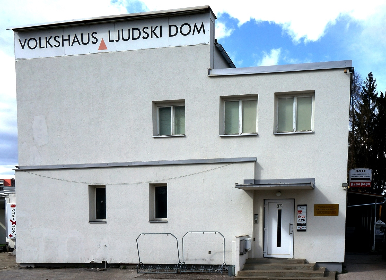 Former publishing house and print shop for the newspaper "Volkswille" on the Suedbahnguertel #24, 7th district "Viiktringerr Vorstadt" of the capital Klagenfurt, capital of the state Carinthia / Austria / EU